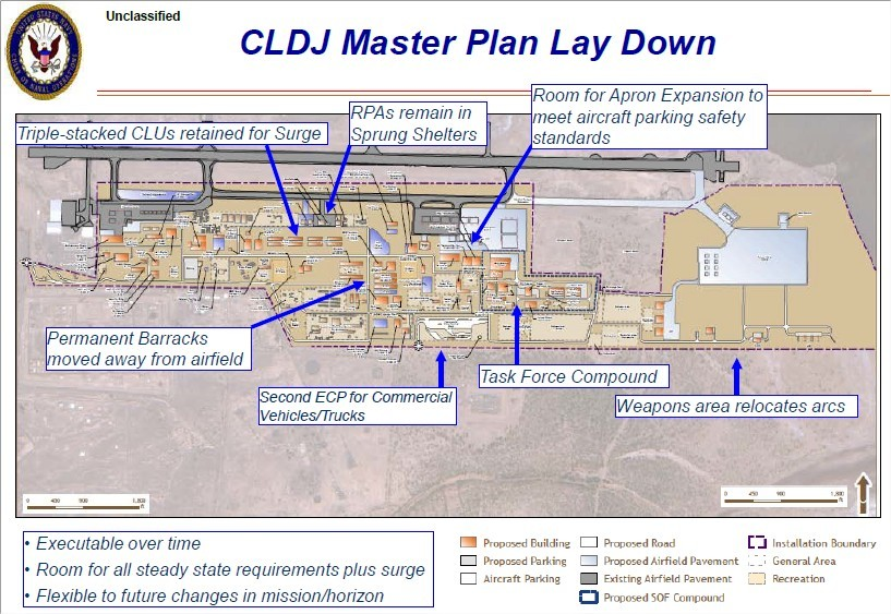 CDLJ Master Plan